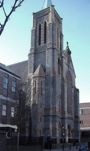 St David's Cathedral, the Roman Catholic cathedral in Cardiff.